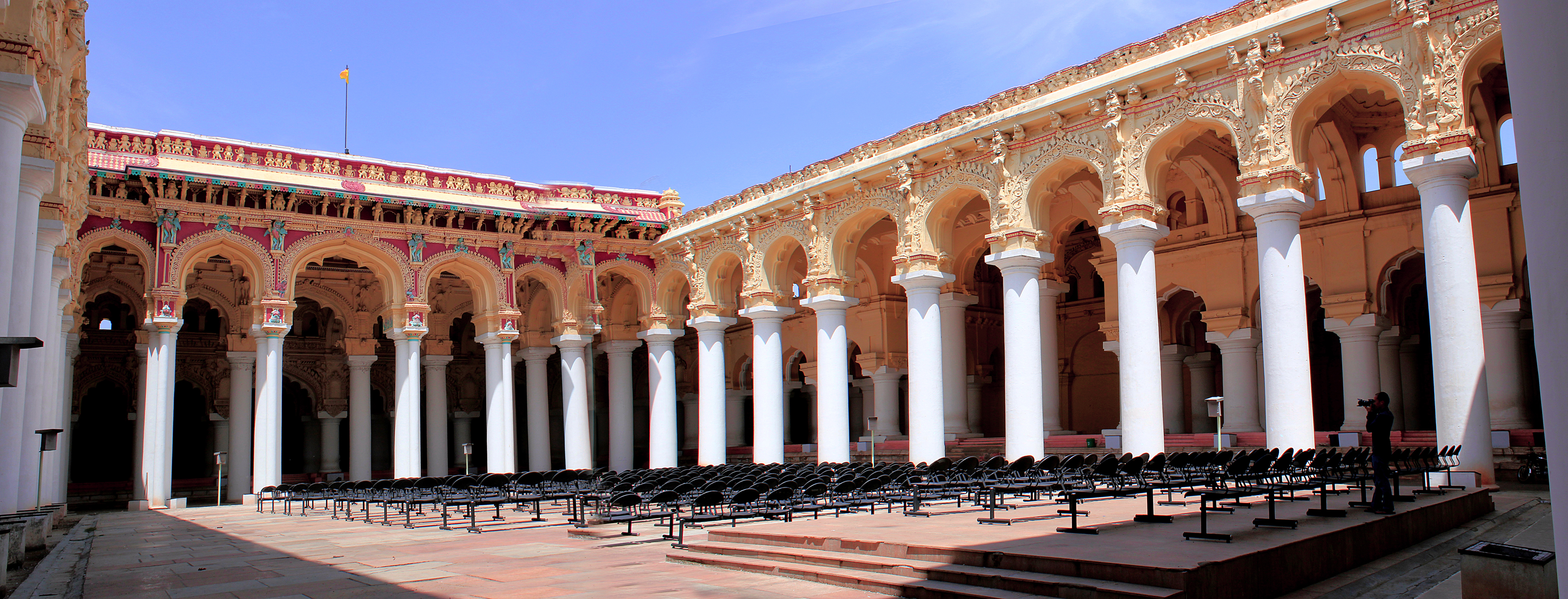 Thirumalai Naicker Mandapam. Madurai. Tamilnadu. India